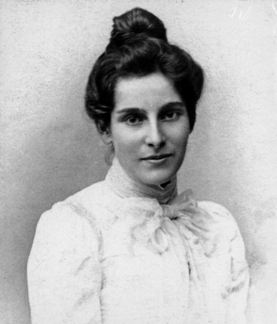 Elisabeth Freiin von Richthofen (1874–1973), cousin of Red Baron Manfred von Richthofen, was one of the first German social scientists. She has been the wife of German national economist, Edgar Jaffé, and also lover of the Austrian phsychologist and anarchist Otto Gross (1877–1920), of German national economist and sociologist Alfred Weber (1868–1958) and his brother, German national economist and sociologist Max Weber (1864–1920).